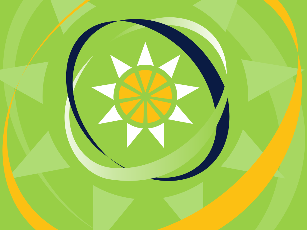 Flag of Organisation of Eastern Caribbean Fed and Davis Cup Teams.